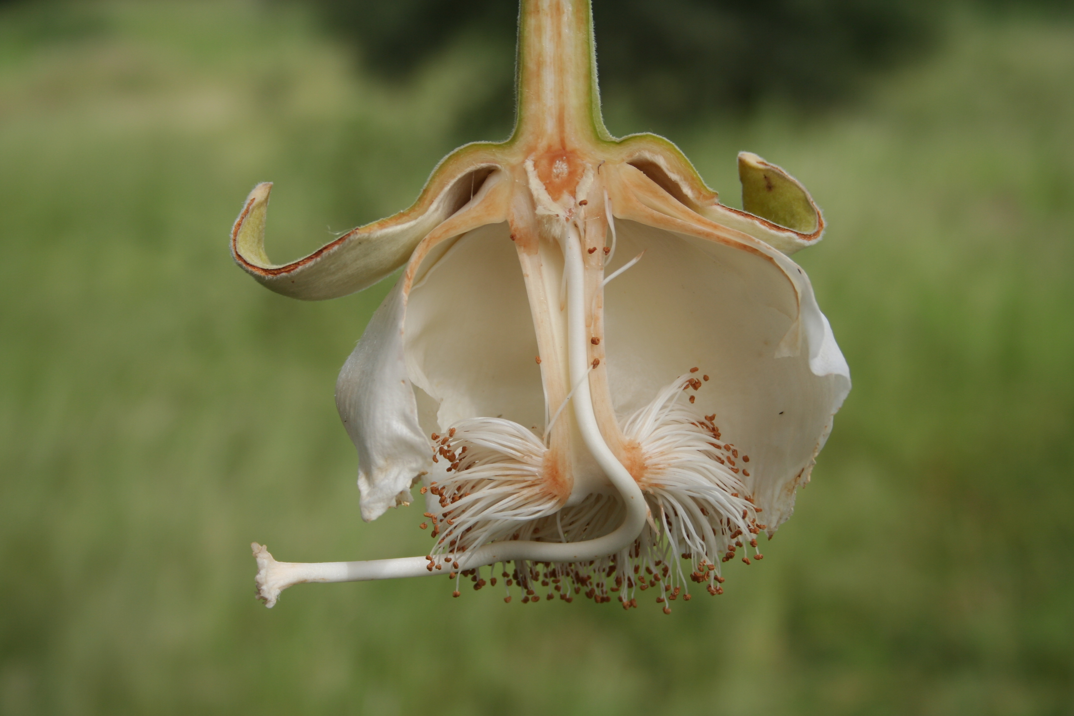 Flower of baobab (Adansonia digitata) in longitudinal section, Burkina Faso, between Fada N'Gourma and Ouagadougou